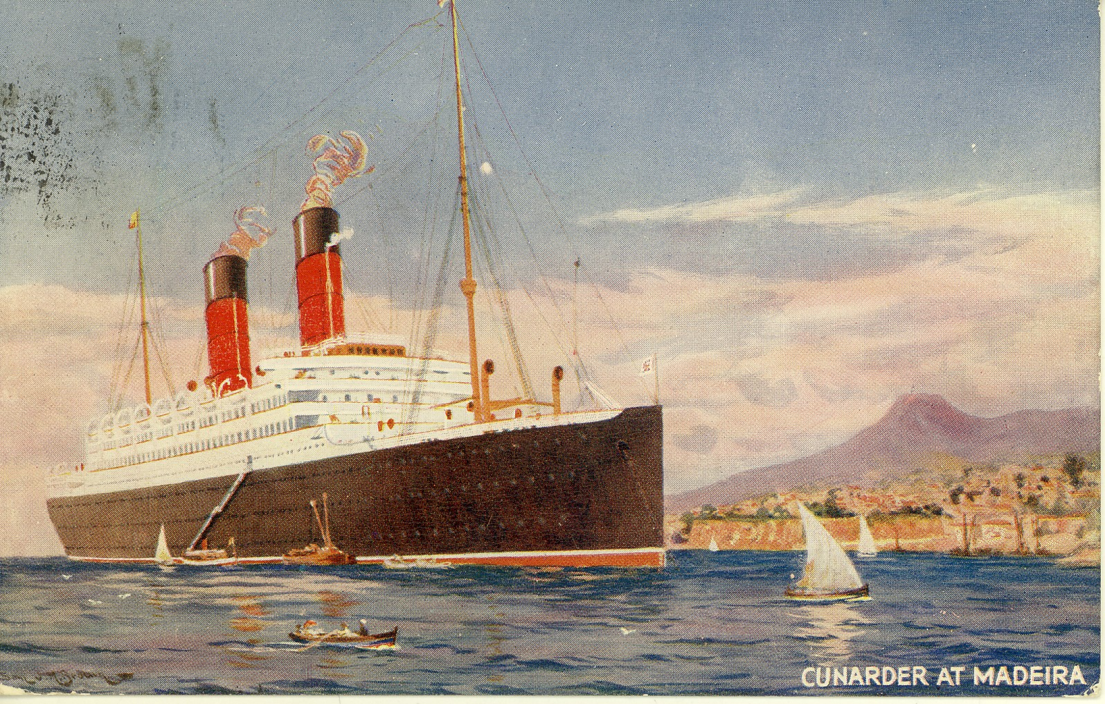 RMS Franconia I (1910) Cunarder at Madeira Appears to be a postcard Woodrow Wilson Presidential Library via Flickr Commons